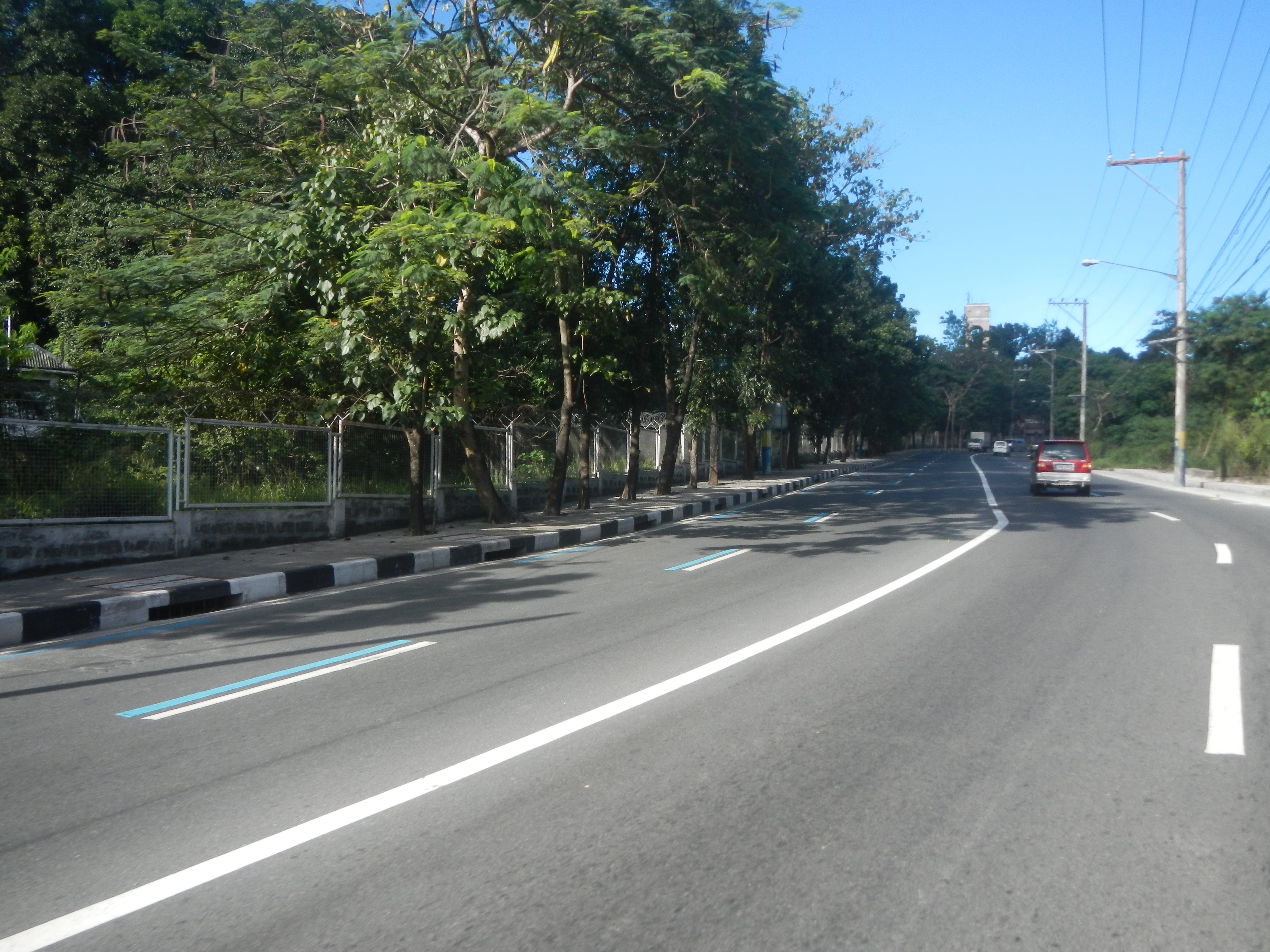 Metro Antipolo Hospital and Medical Center (MAHMC) Mayamot Marcos Highway 14°37'28"N 121°7'5"E Cornel Medical Center 14°37'31"N 121°7'20"E SM Supermarket SM City Masinag Landscape of Manila MRT Line 2 (Santolan LRT Station - Emerald LRT Station - Masinag LRT Station, Marcos Highway, Pasig City, Marikina City, Cainta, Rizal & Antipolo City) Legislative districts of Antipolo City List of barangays of Metro Manila,Barangay Mayamot 14°37'25"N 121°7'20"E Mambugan 14°36'56"N 121°8'8"E Antipolo City along Sumulong Highway to Circumferential Road 6 and Marikina–Infanta Highway Marcos Highway or MARILAQUE Highway or Manila-Rizal-Laguna-Quezon interconnecting with, along and from the Marcos Highway 14°36'49"N 121°20'8"E (Marikina City Section) to Marcos Highway (Pasig City - Antipolo City Section) MRT-2 (LRT-2) Santolan LRT Station Manila Light Rail Transit System Line 2 Strong Republic Transit System SRTS (Note: Judge Florentino Floro, the owner, to repeat, Donor Florentino Floro of all these photos hereby donate gratuitously, freely and unconditionally all these photos to and for Wikimedia Commons, exclusively, for public use of the public domain, and again without any condition whatsoever).